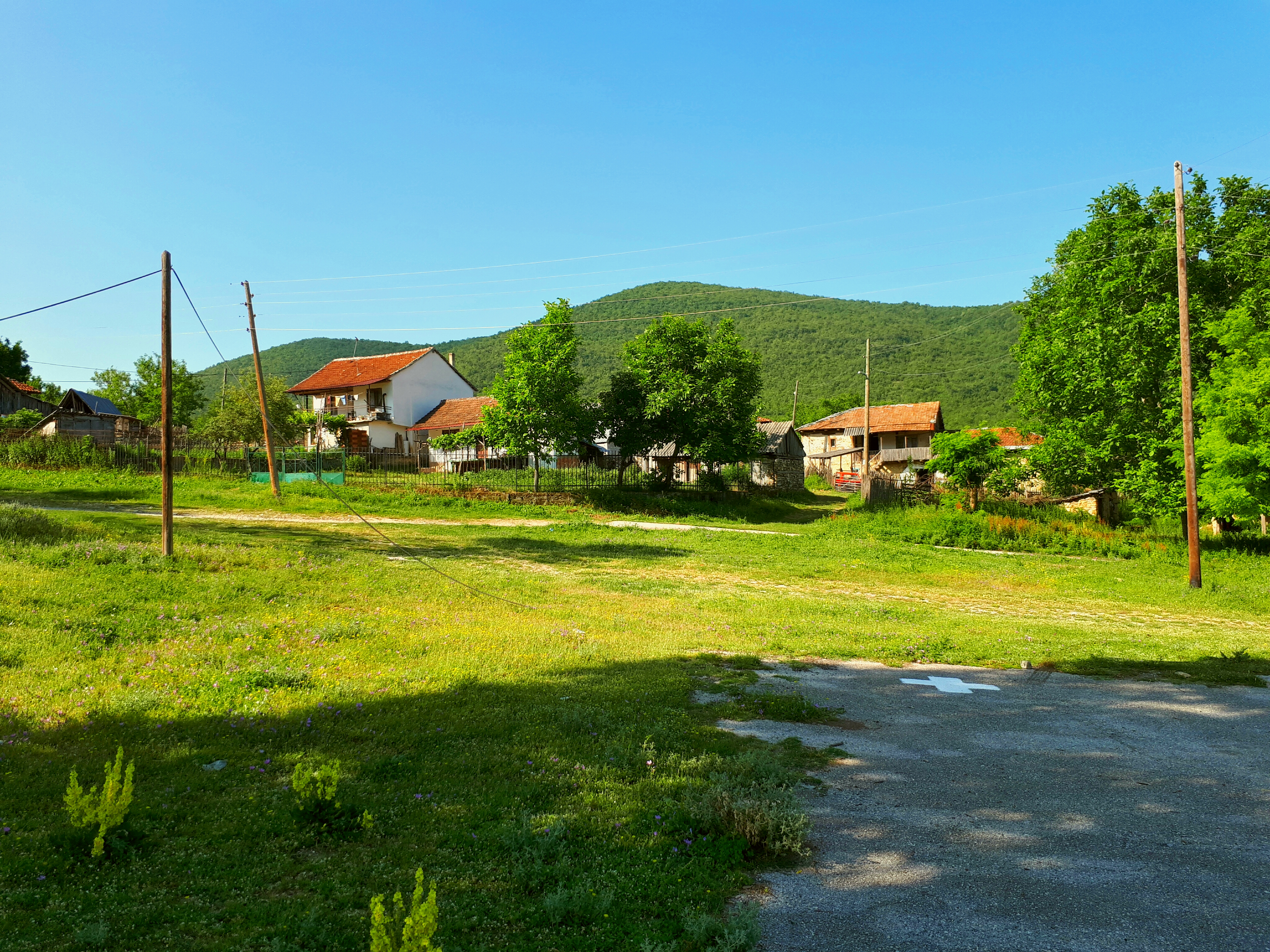 View of the center of the village Crešnevo